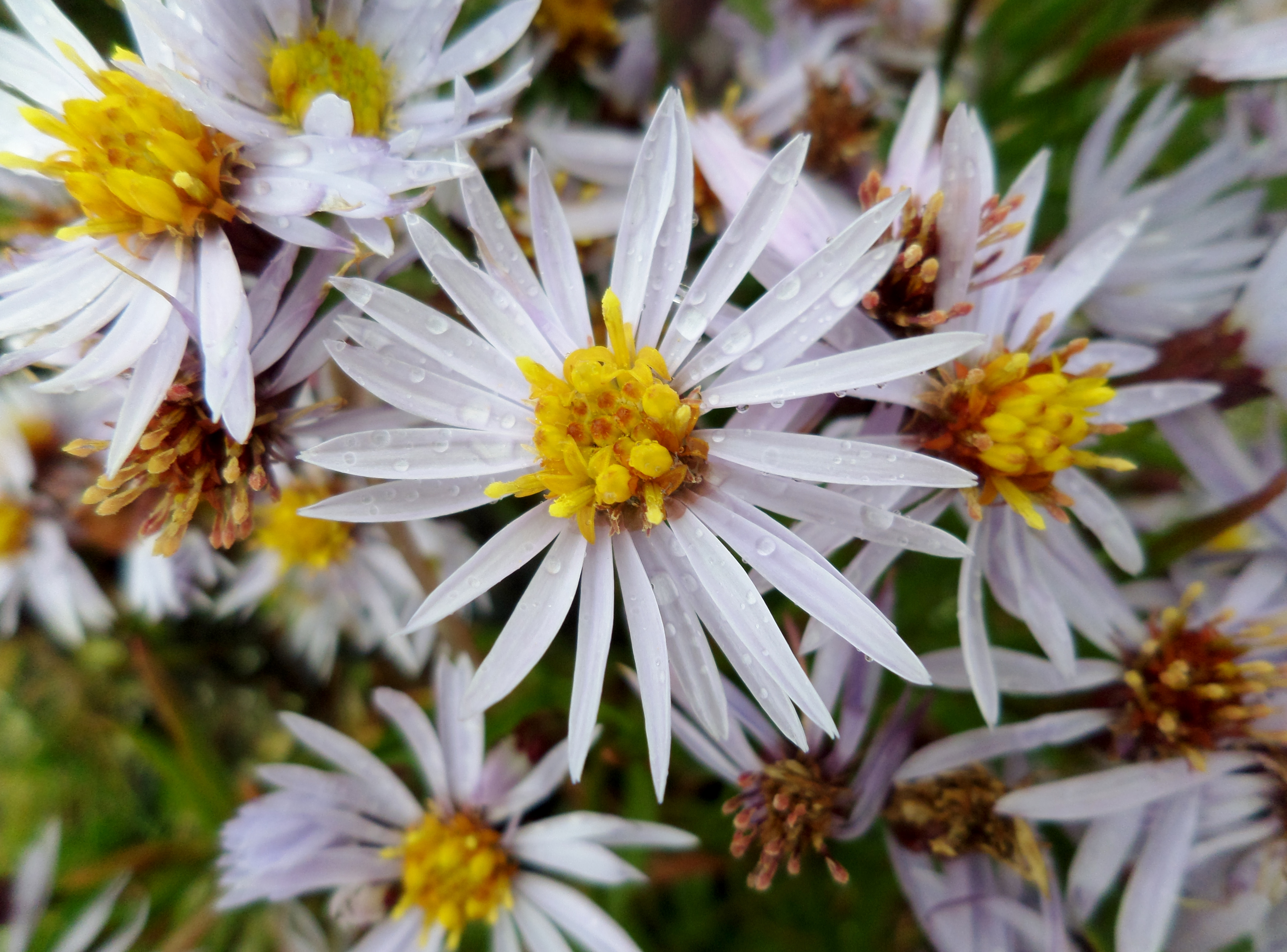 Tripolium pannonicum or Sea Aster at Largs, North Ayrshire, Scotland.